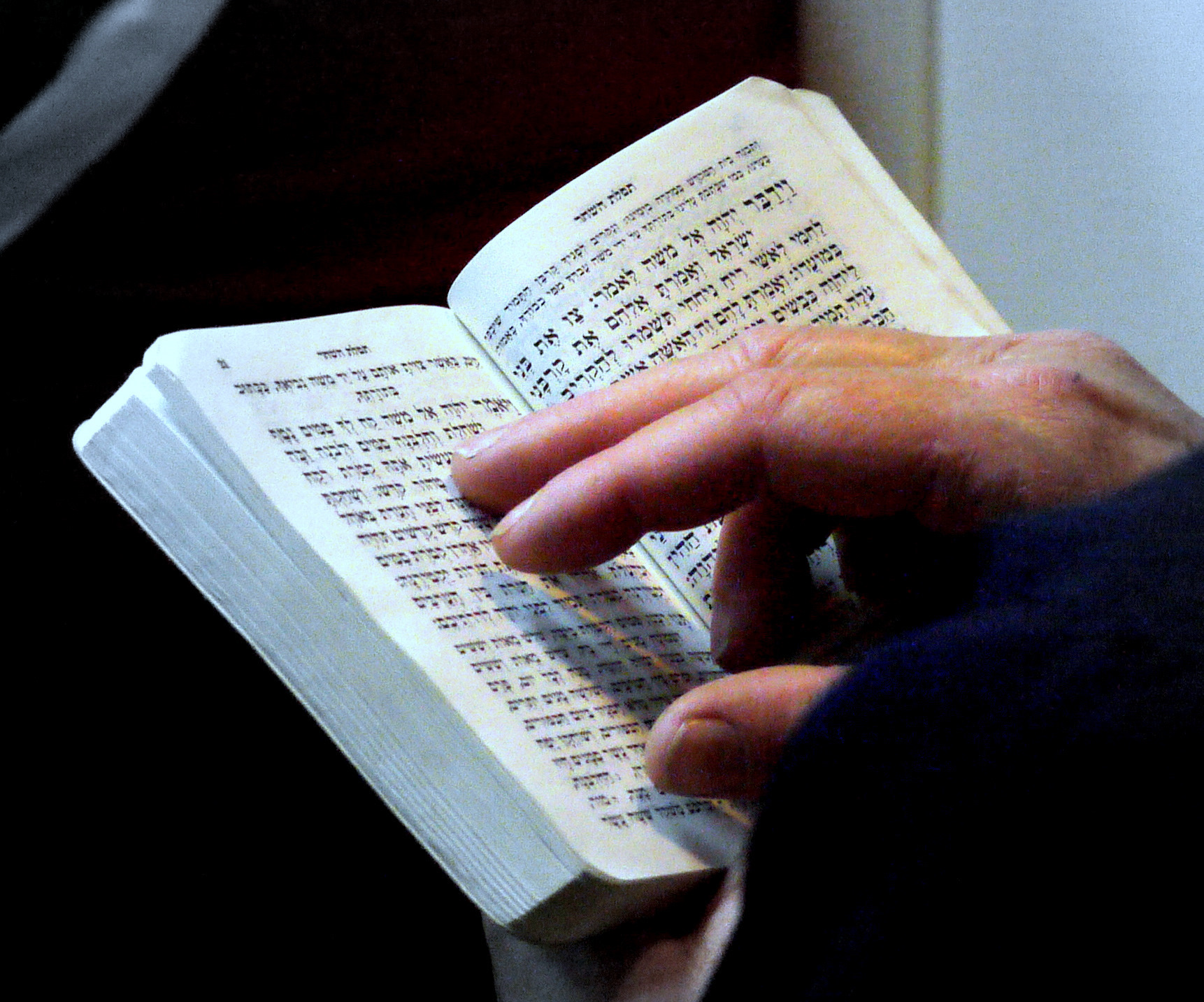 Religion in Israel